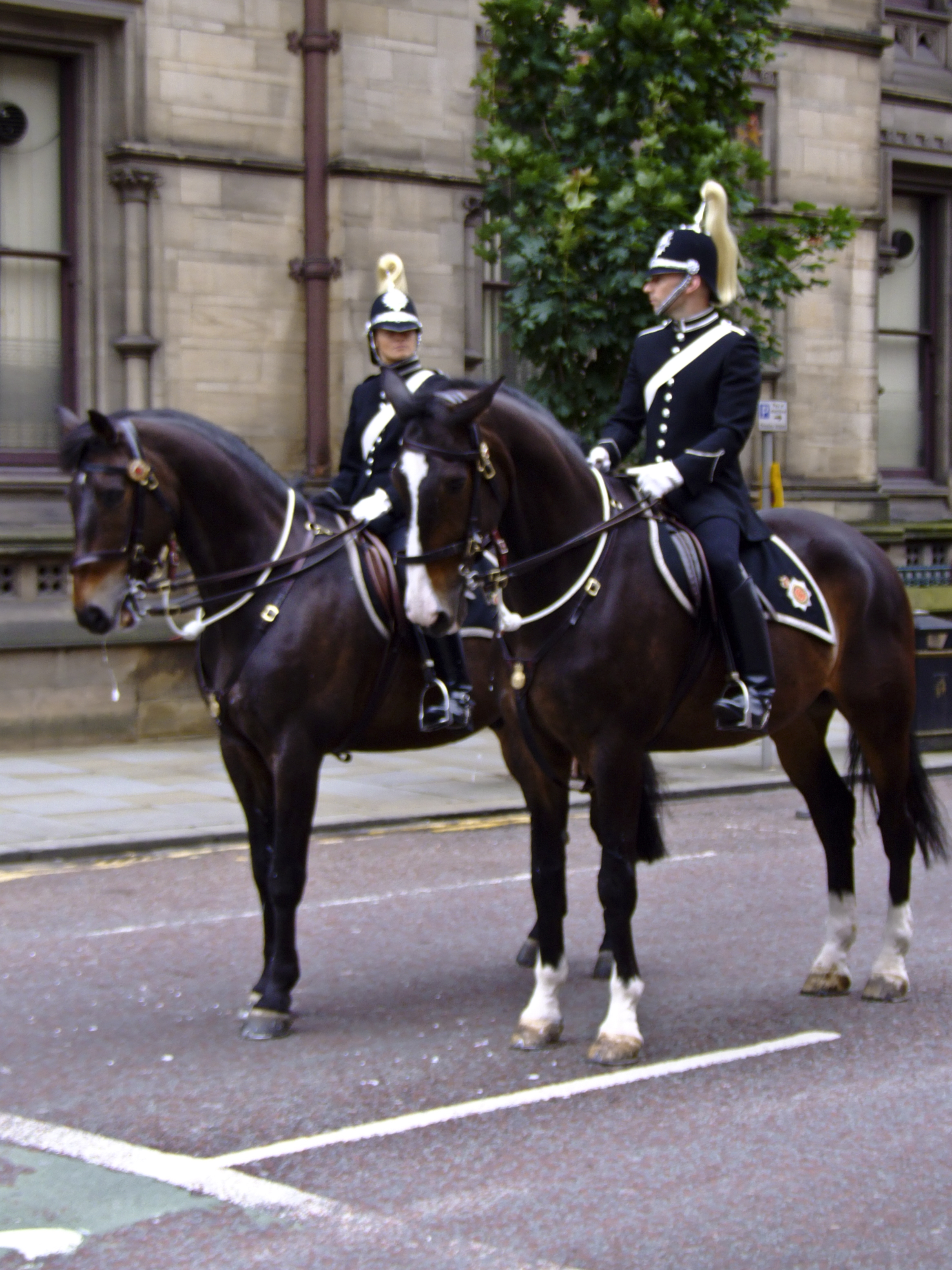 The Greater Manchester Police Mounted Unit at the city parade.